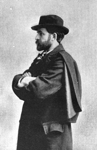 Photograph of American writer Hamlin Garland (1860-1940). From A Member of the Third House: A Dramatic Story. Chicago: F. J. Schulte and Company, 1892.